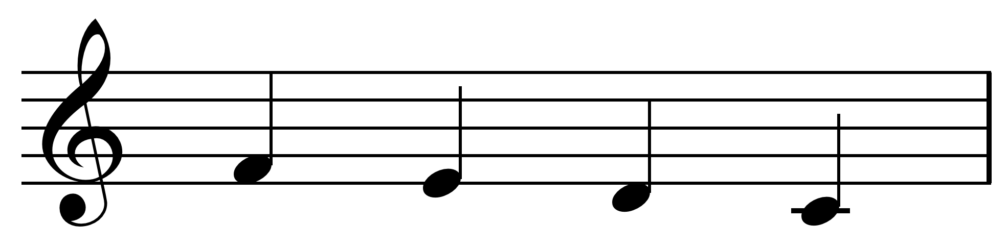 Lydian tetrachord. Created by Hyacinth (talk) using Sibelius 5.